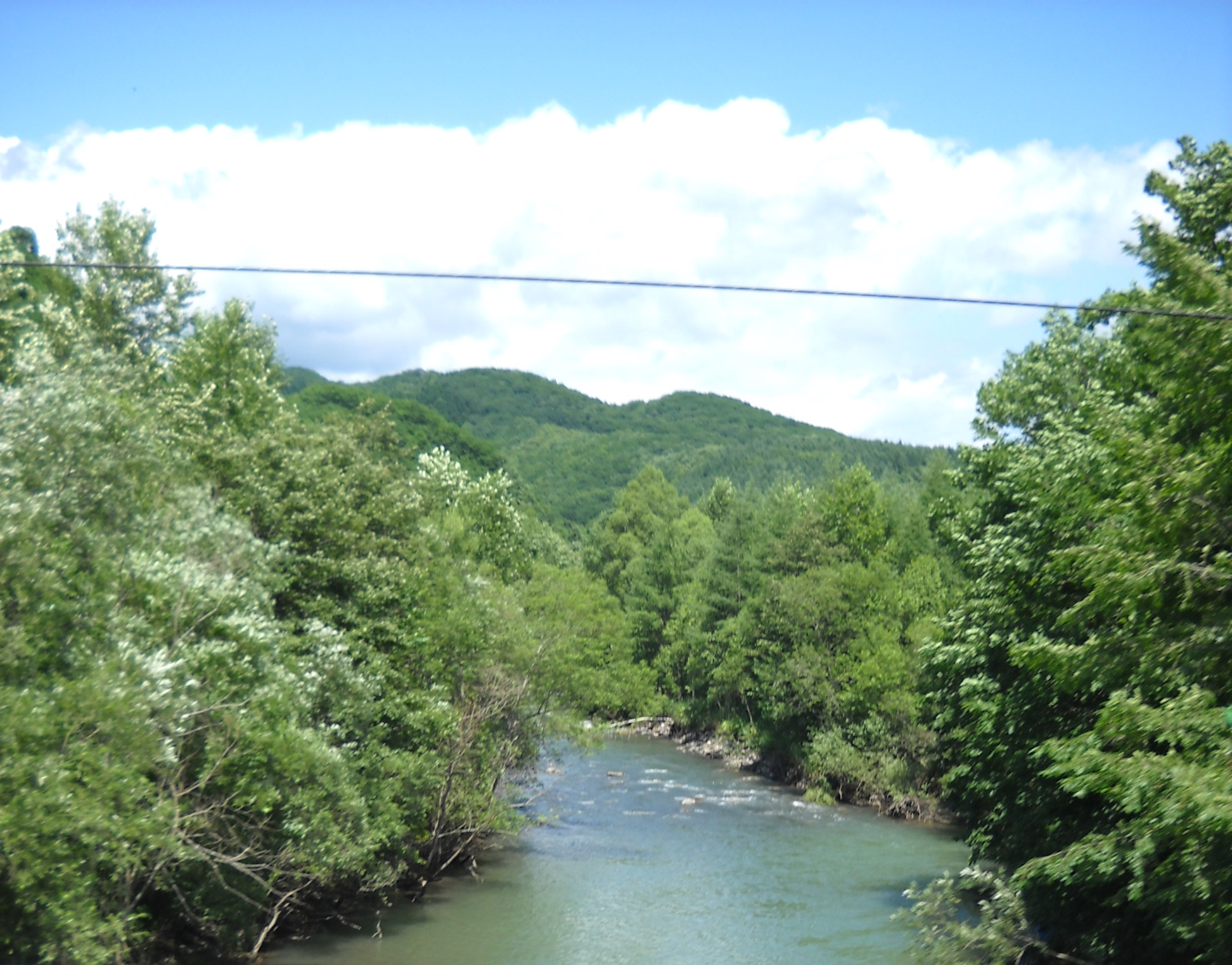 Tokachi River, Shintoku town, Hokkaido, Japan.